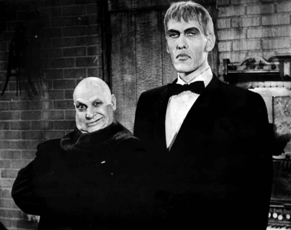 Publicity photo of Jackie Coogan (Uncle Fester) and Ted Cassidy (Lurch) from a personal appearance booking at Pleasure Island (Massachusetts amusement park, Wakefield Massachusetts).